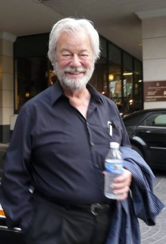 Gordan Pincect had just strolled outside peacefully for this photo, which he graciously posed for. Checkout More Great photos at